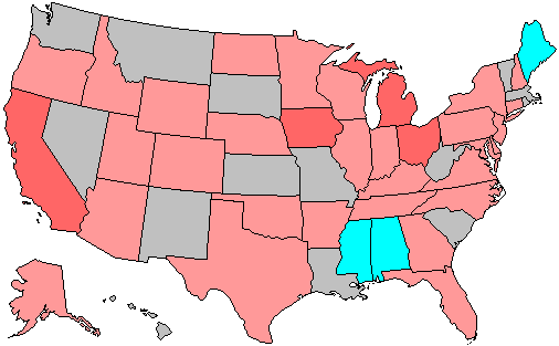 Summary of party change of U.S. house seats in the 1966 House election. Stripes indicate a tie between the gains of two or more parties. Legend: 6+ Democratic seat pickup 3-5 Democratic seat pickup 1-2 Democratic seat pickup 1-2 Republican seat pickup 3-5 Republican seat pickup 6+ Republican seat pickup Note: years ending in 2 may have inconsistent results due to redistricting.